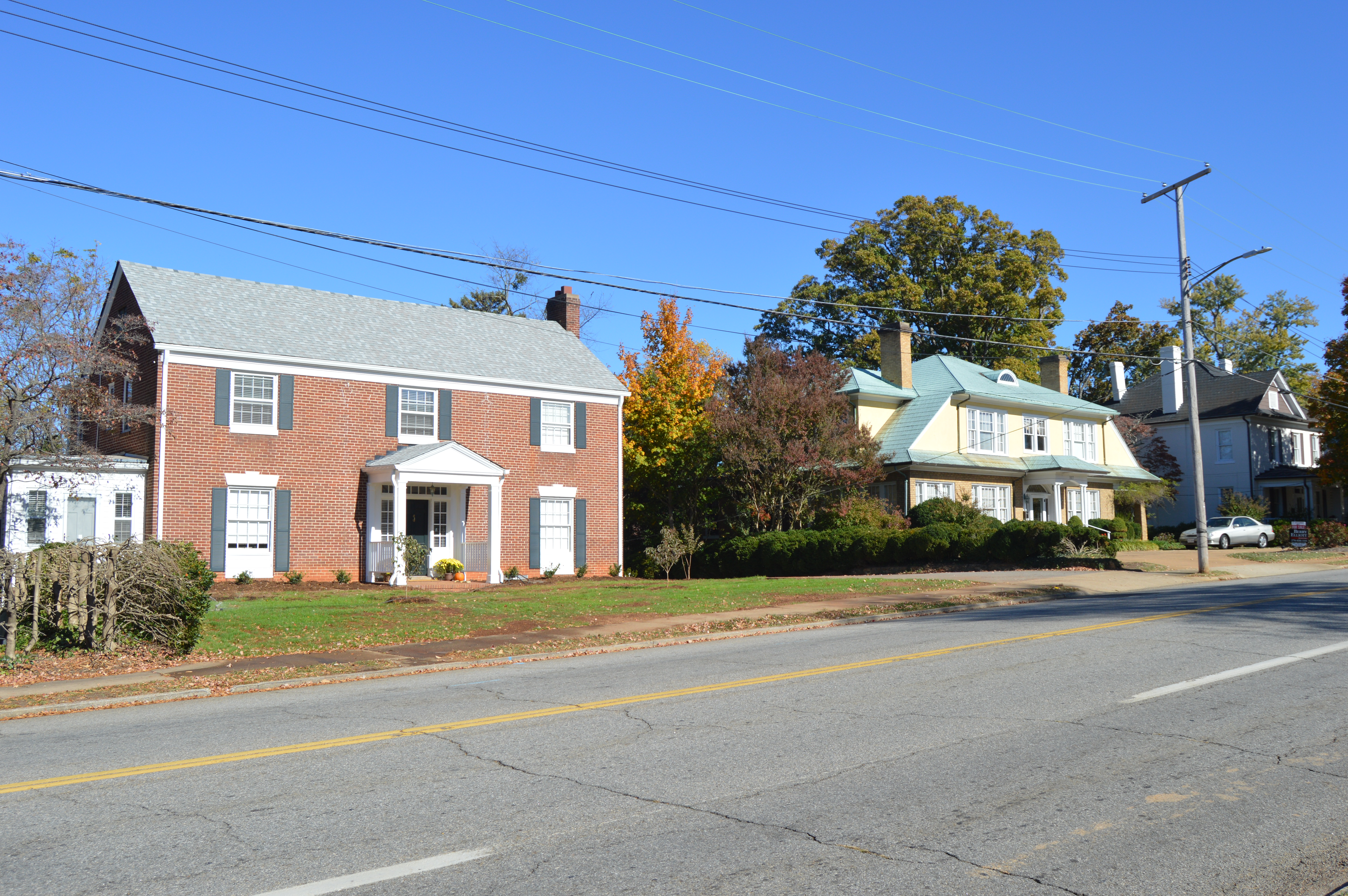 Houses on the northern side of Church Street, west of Starling Avenue, in Martinsville, Virginia, United States. This block is part of the East Church Street-Starling Avenue Historic District, a historic district that is listed on the National Register of Historic Places.